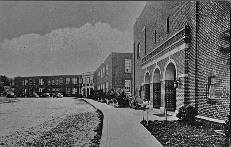 McKee School and Hoey Auditorium, on the Western Carolina University Campus in Cullowhee, NC, circa 1940, after its completion in 1939. It served as a combination Elementary and High School from 1939 until 1964, and was the longest lived of the four brick graded schools in Cullowhee, the first, built in 1922-23, lasted 16 years before being replaced by this building, which in turn was replaced 25 years later, in 1964, by another building that lasted 24 years as a combination Elementary and High School before being downgraded to a K-8 School in 1988 and finally closing in 1994, when the present Cullowhee Valley School opened. McKee, Hoey, and Camp Laboratory still stand as part of the Western Carolina University campus, and all three were renovated within the last 23 years.